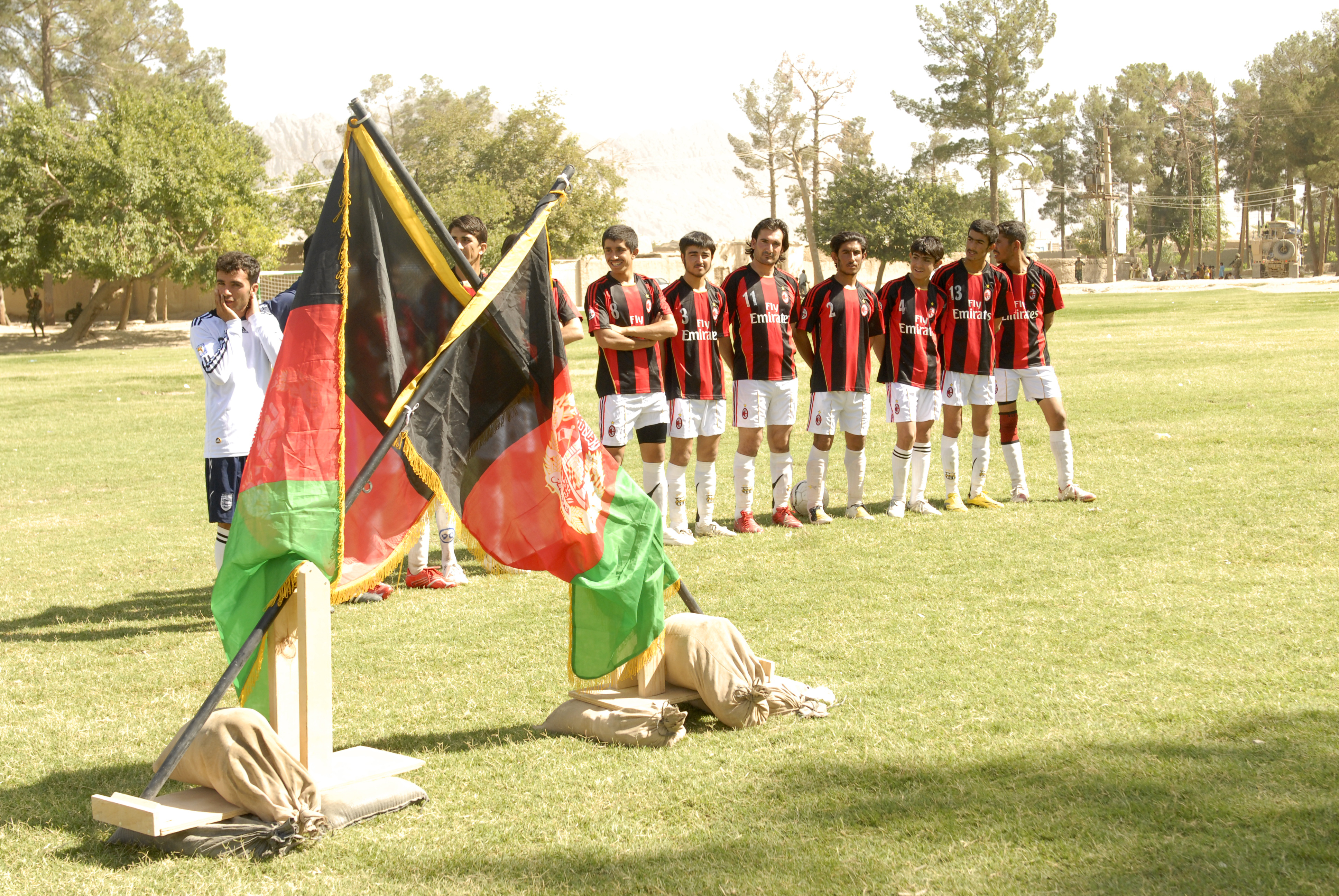 KANDAHAR, Afghanistan – Members of a soccer team from the ’Old Corps’ area of Kandahar City wait to pose for a photo before their big game June 8, during a ribbon cutting ceremony which signified the official opening of a new soccer field in sub district one of Kandahar City. The new field was one of many projects headed by 1st Brigade Combat Team, TF ‘Raider’, 4th Infantry Division and their Afghan National Security Forces partners in their joint-reconstruction efforts to improve quality of life, safety and security for residents of Kandahar City. (U.S. Army photo by Sgt. Breanne Pye, Public Affairs Office, 1BCT, 4th Inf. Div.)